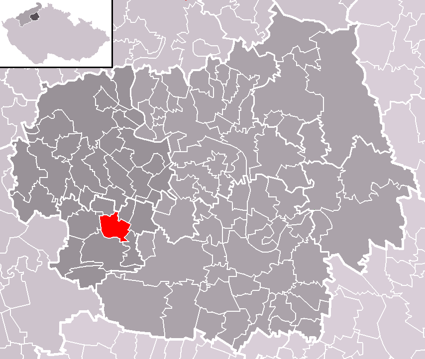 Location of Slatina municipality within Litoměřice District and administrative area of Lovosice as a Municipality with Extended Competence.